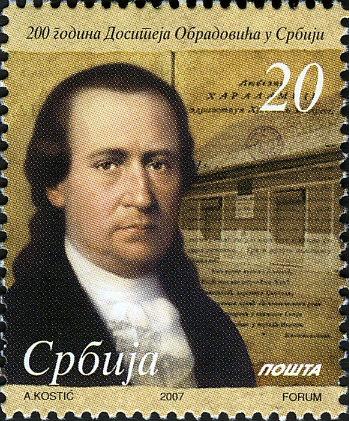 200 Years of Dositej Obradovic in Serbia